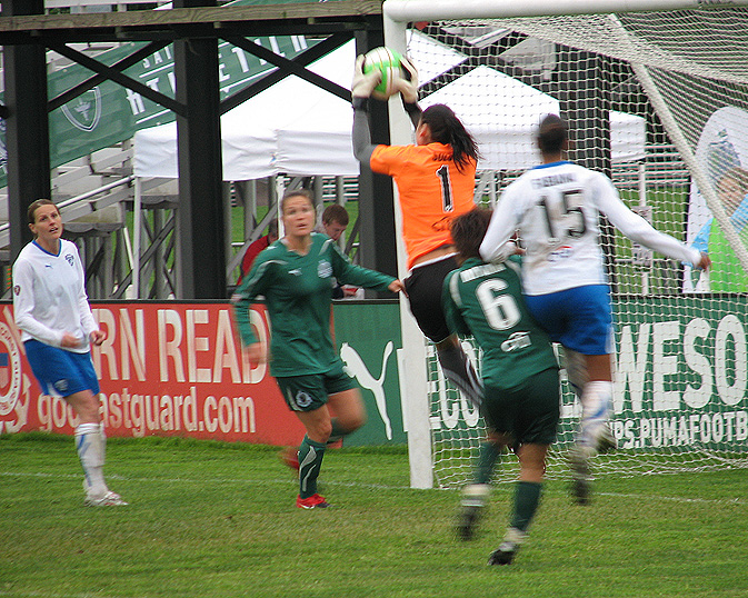 Goal Keeper Hope Solo of the (WPS) Womens Professional Soccer Club, St.Louis Athletica.